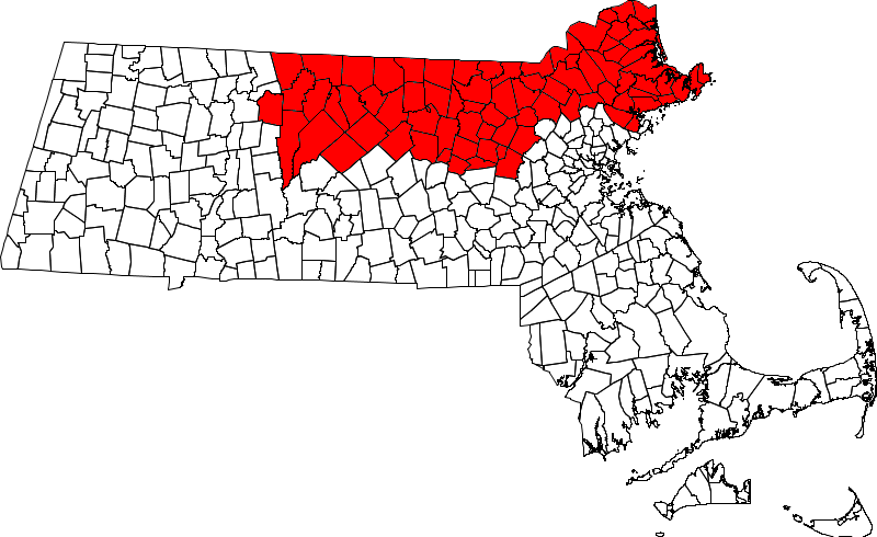 I created this file myself using an image from the massachusetts government website. It is completely in the public domain.